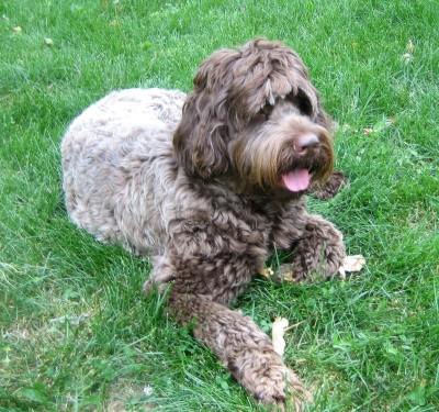 Australian Labradoodle